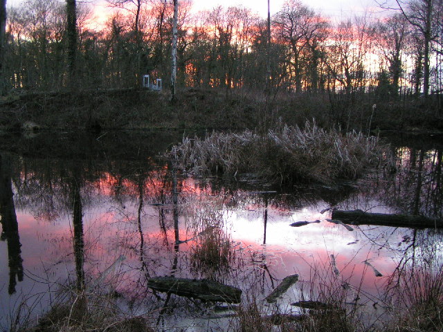 Sunset - Hem Heath Nature Reserve. Wonderfully secluded reserve on the southern edge of the Potteries